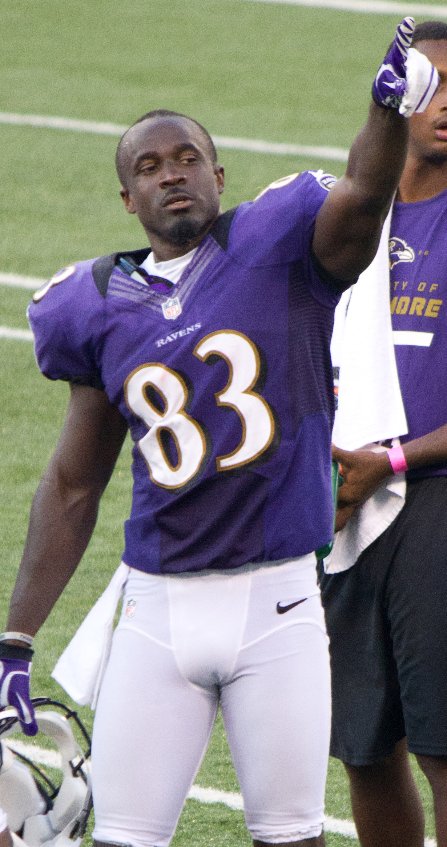 Deonte Thompson at Ravens practice at M&T Bank Stadium Aug 2012